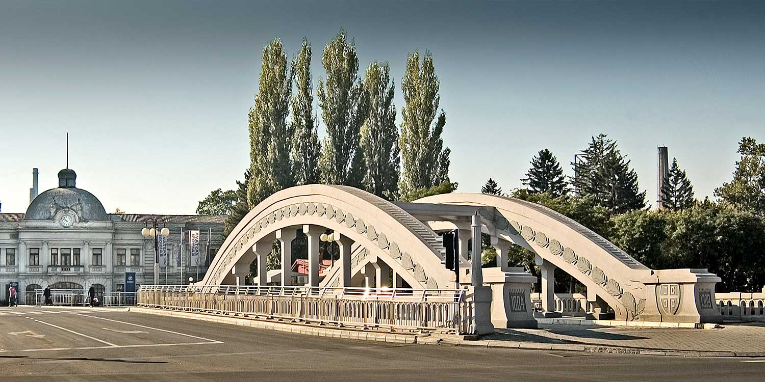 The bridge number one over river Lepenica in Kragujevac